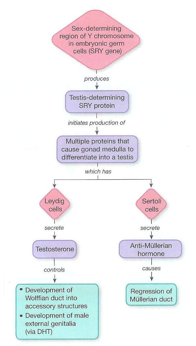 The Wolffian System Pathway